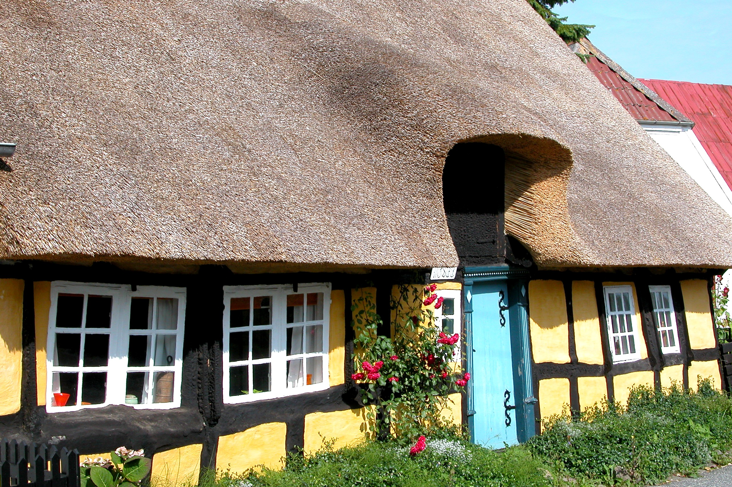 Old house in Ommel, Ærø, Denmark